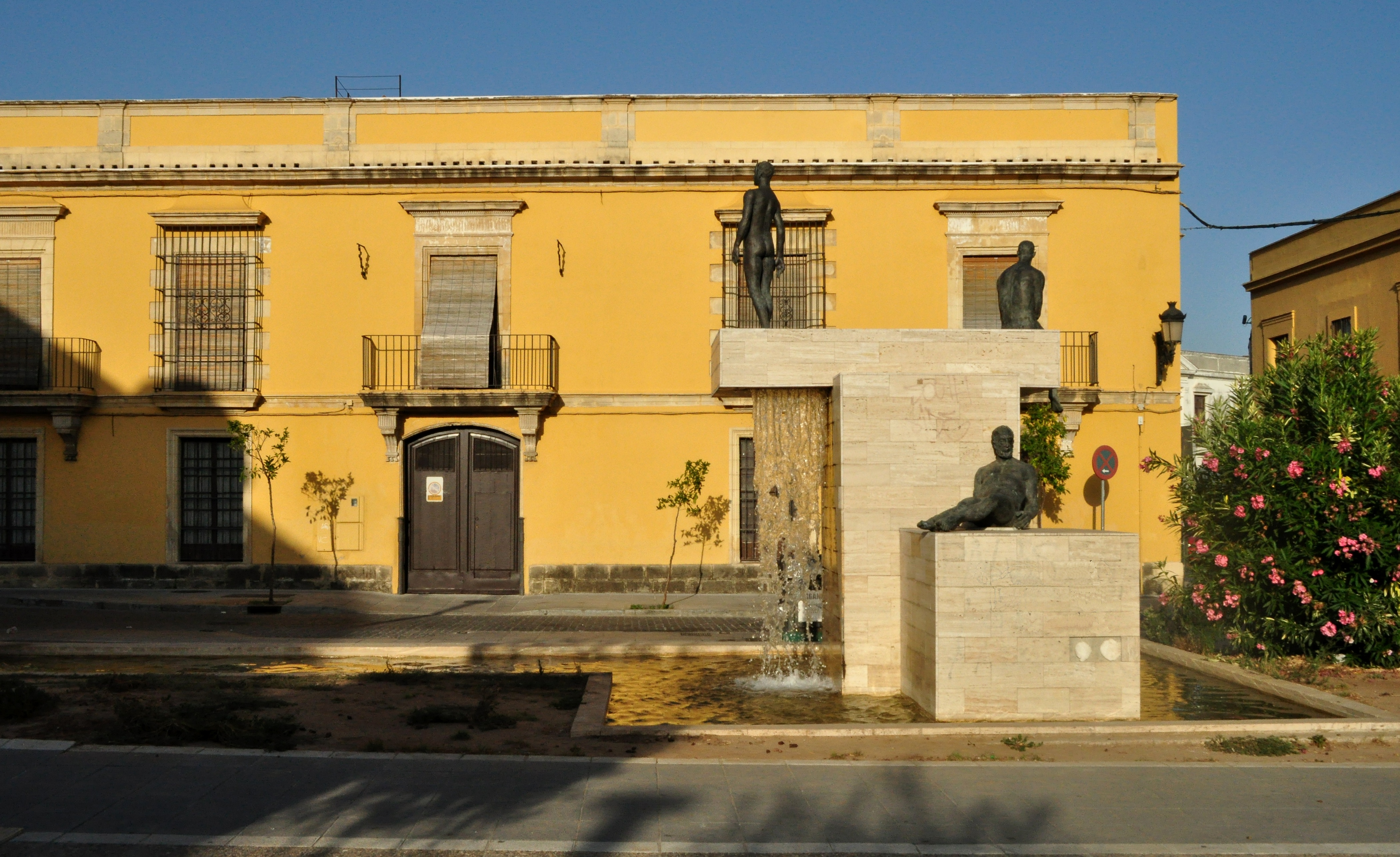 Ages of Men with House of Atarazanas, where Lord Byron was hosted.